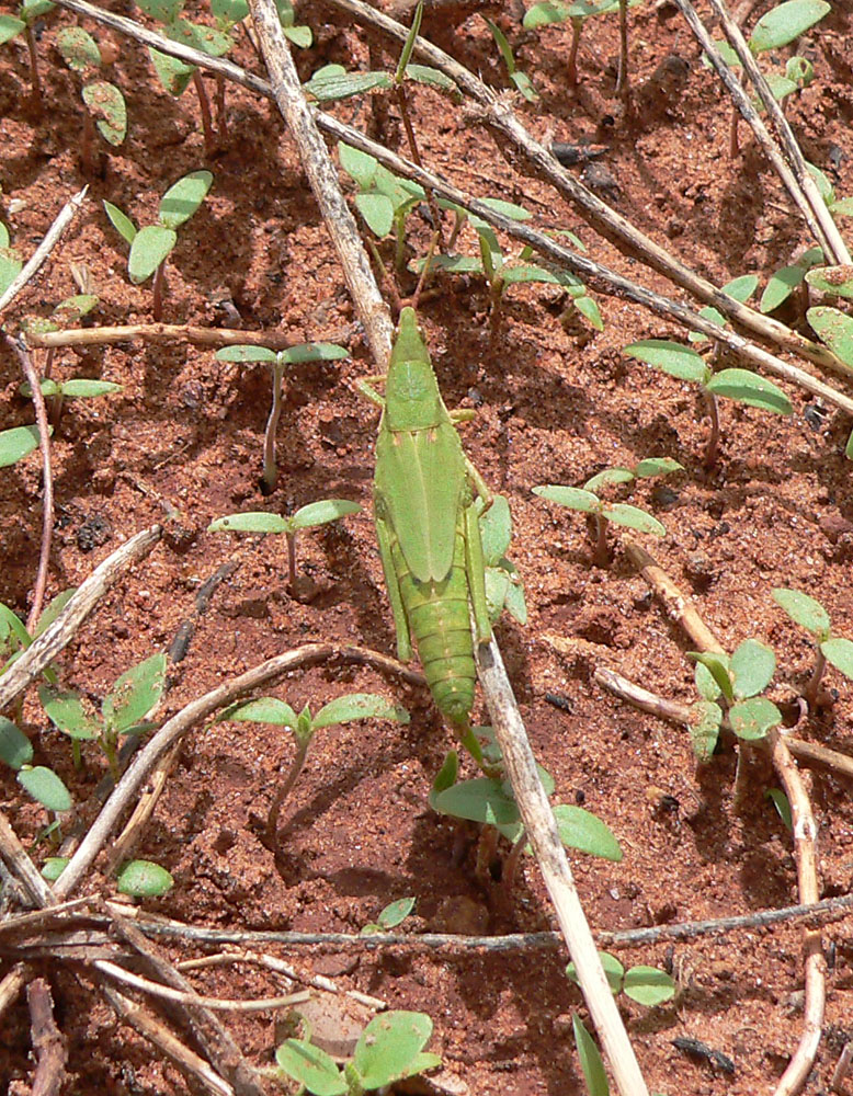 Female Pyrgomorpha vignaudi photographed by Christiaan Kooyman on 2 July 2005 near Kerewan, The Gambia.